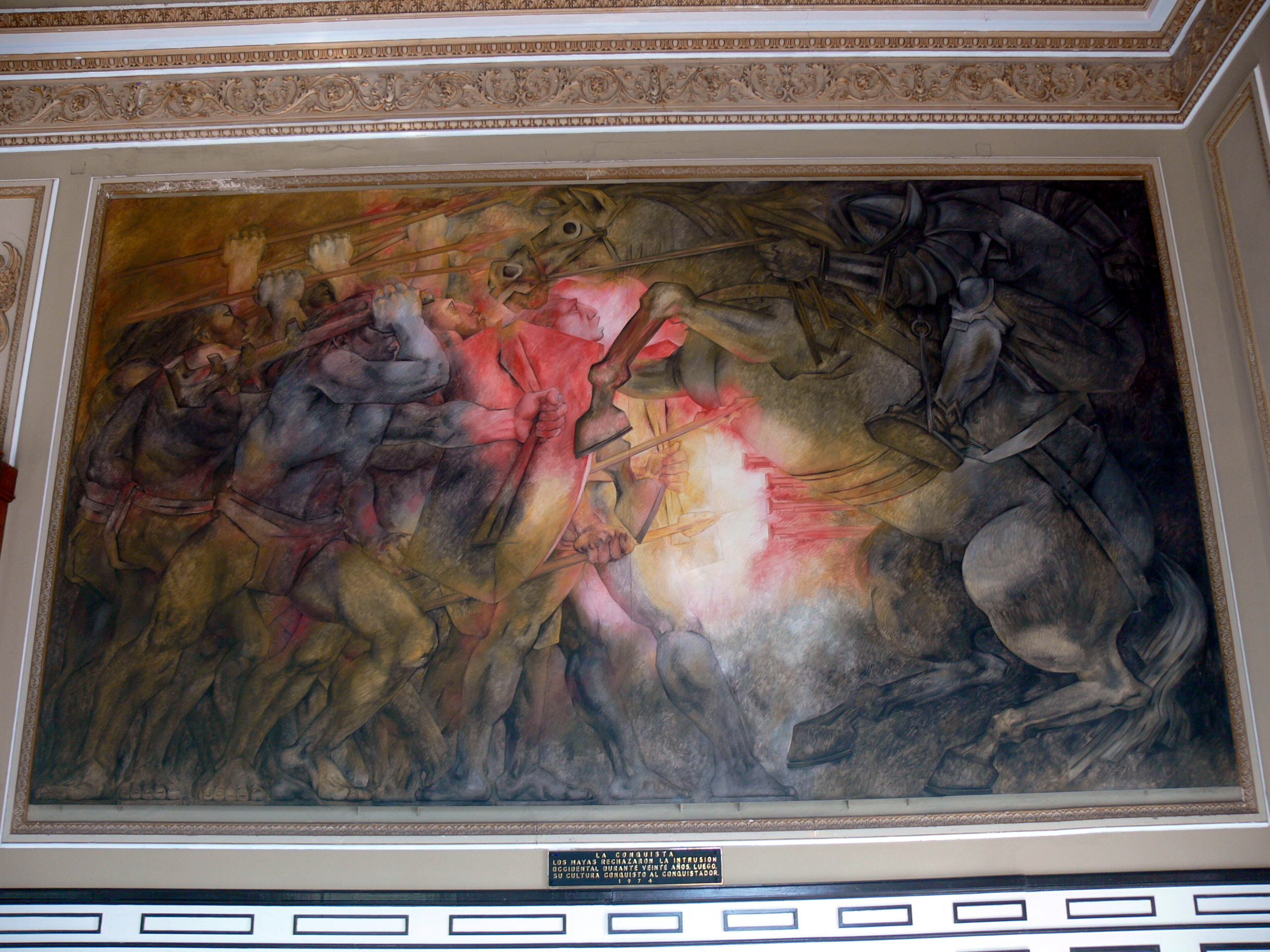 Mérida - Palacio de Gobierno - Murals by Fernando Castro Pacheco: Mayan warrior fighting against Spanish conquistadors.